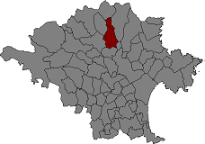 Location of Sant Climent Sescebes in Alt Empordà